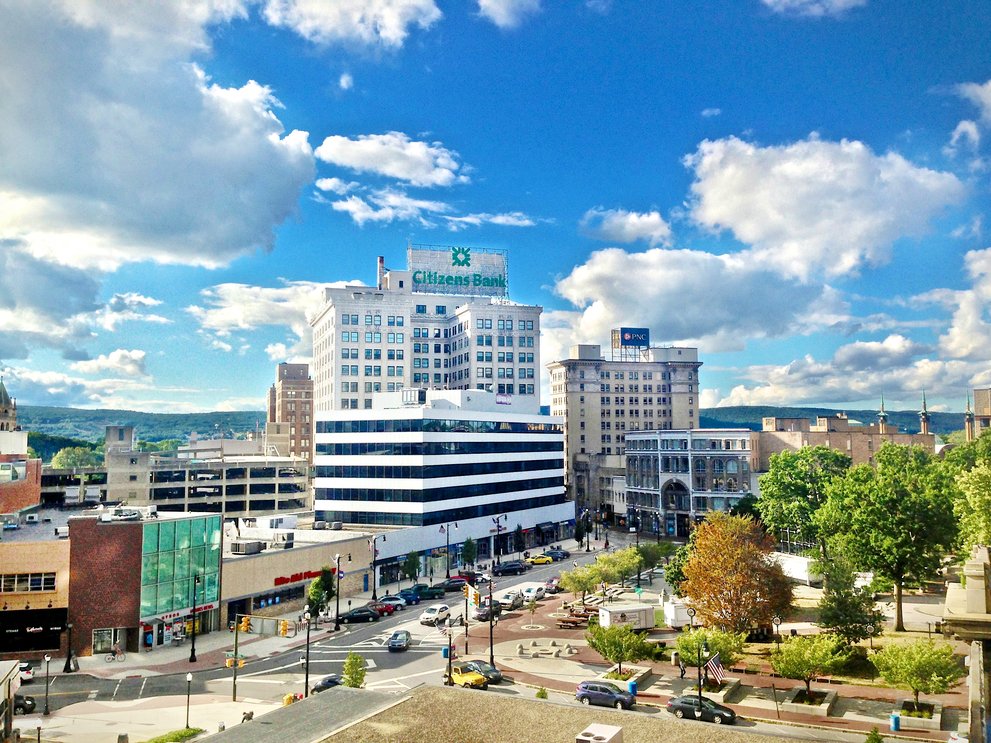 View of downtown Wilkes-Barre, Pennsylvania, with Public Square in the foreground and the mountains of the upper valley ridge in the background.